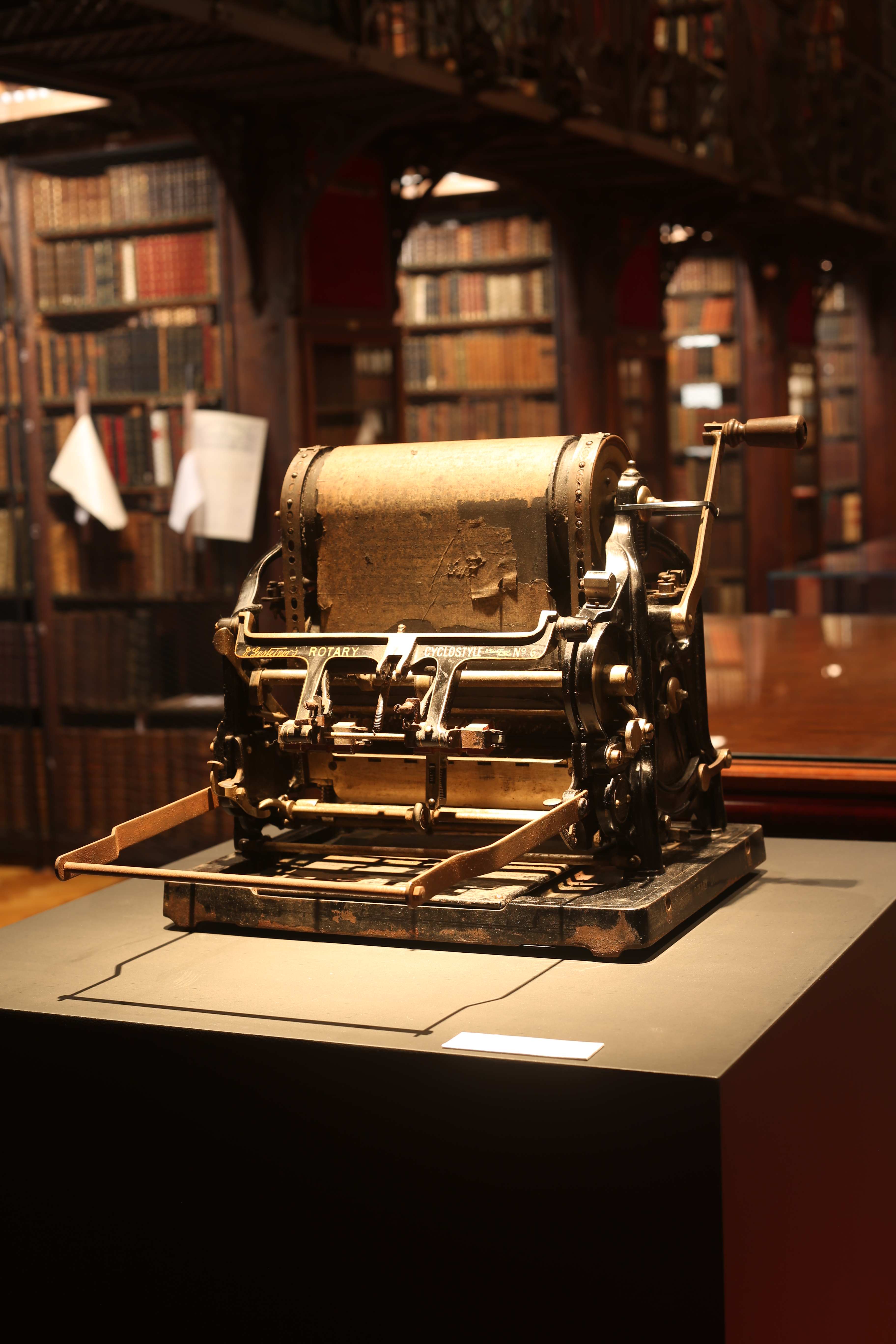 Stencil machine with its last paper in, Hendrik Conscience Heritage Library, Antwerp, Belgium This is a file created at the museum: Hendrik Conscience Heritage Library in Antwerp